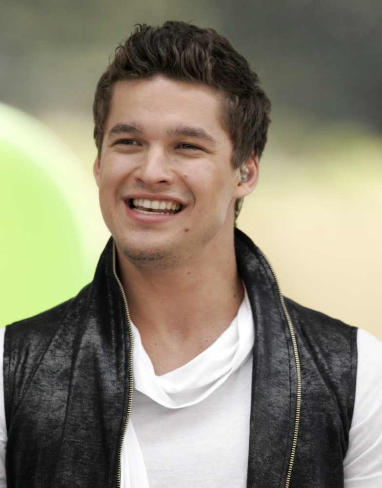 Zach Russell at Sony Foundation's Youth Cancer campaign in Sydney.